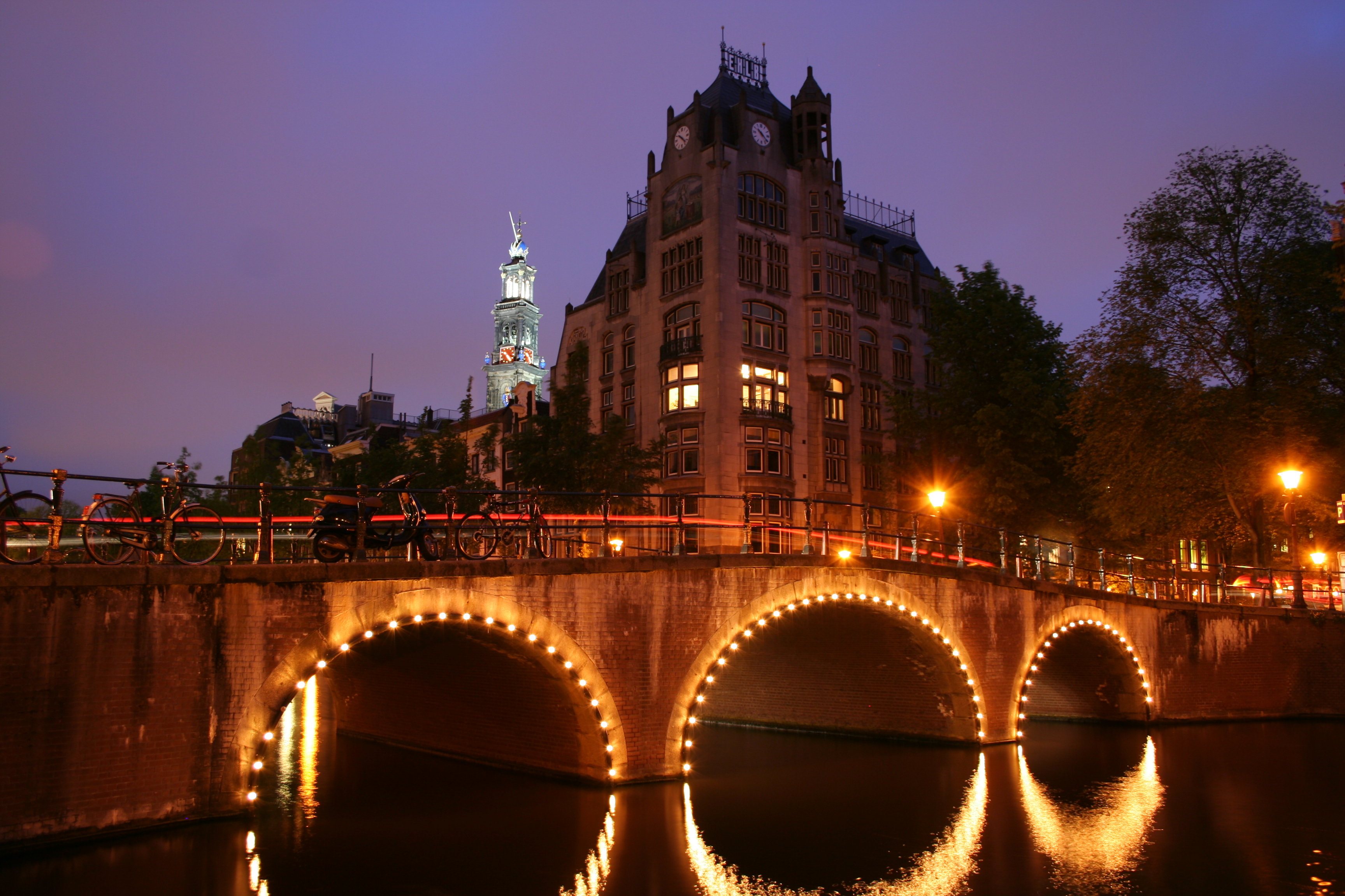 A photograph taken of the Keizersgracht at the corner with the Leliegracht in Amsterdam.